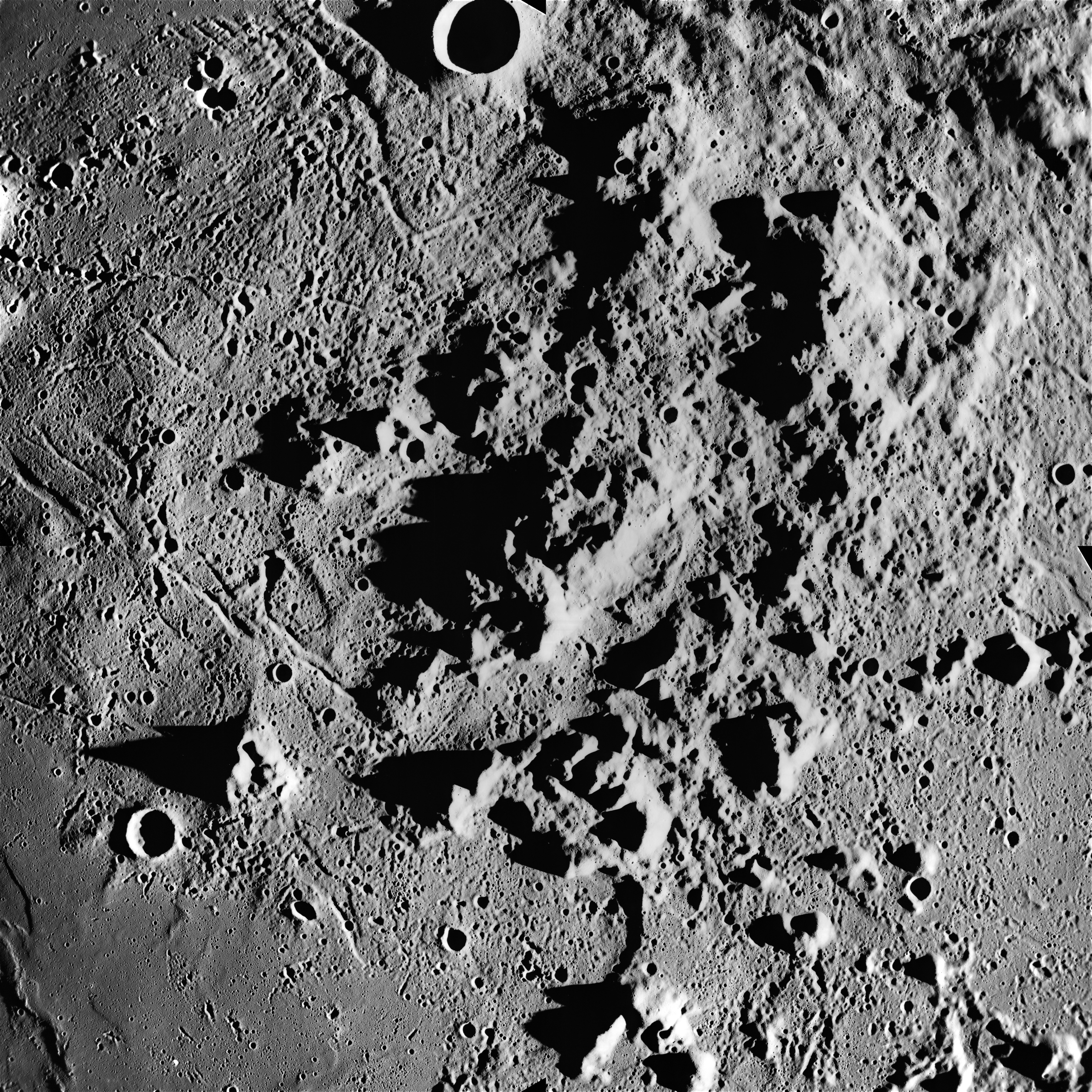 Montes Archimedes on the Moon. Photo by Apollo 15 from altitude 100 km. Sun elevation is 5°. Size of the image is 150×150 km, north is up. Original photo was rotated 90° ccw, somewhat cropped and levels- and gamma-adjusted.